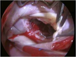 Preop valve analysis before repair